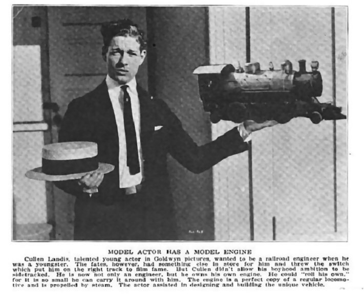 Actor Cullen Landis, circa 1920